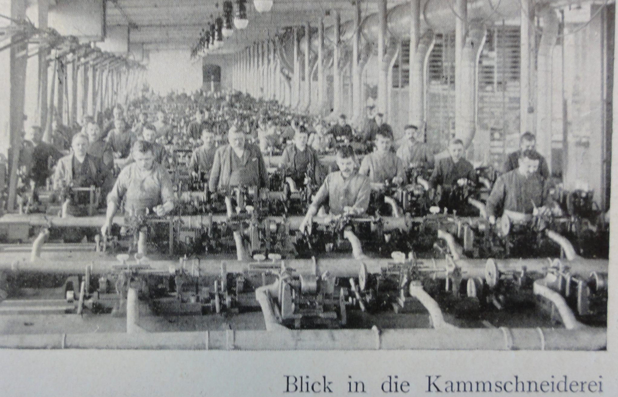 Hannover Gummiwerk Excelsior, production of haircombs1912